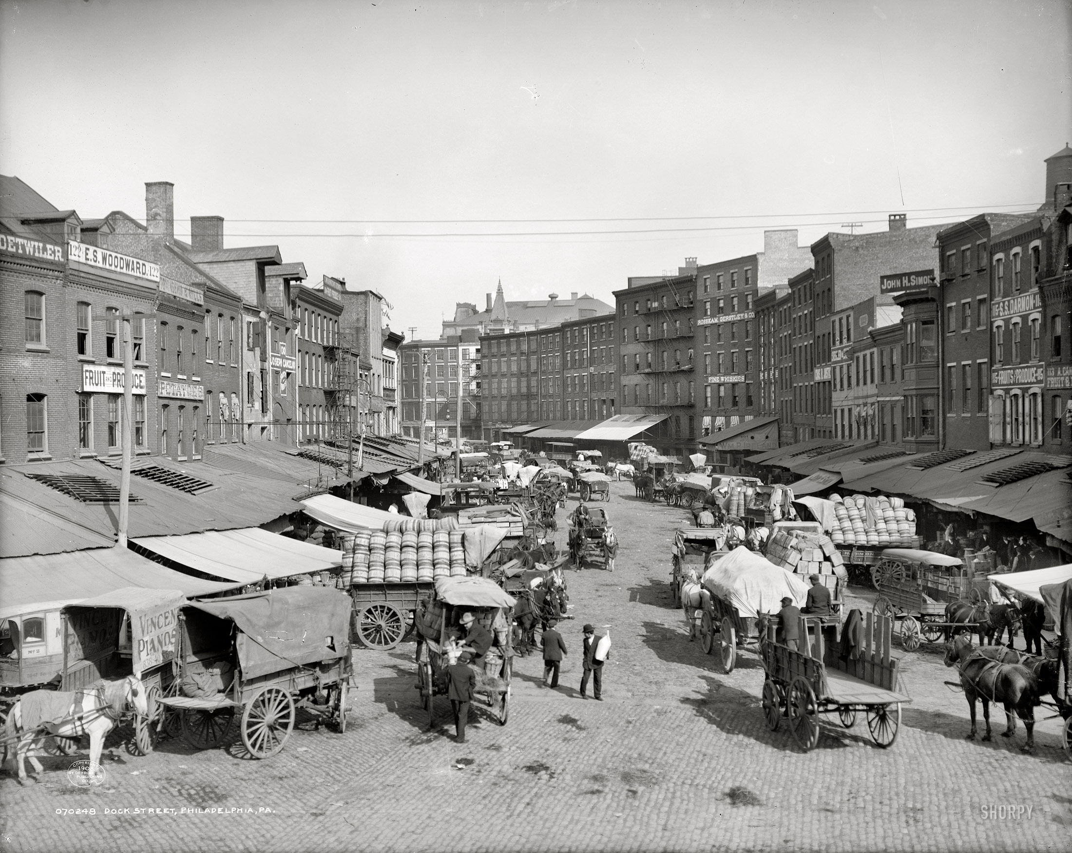 Dock Street Market looking north from the 100 block of Spruce Street in Society Hill, Philadelphia, Pennsylvania. Photo circa 1910 by unknown photographer.